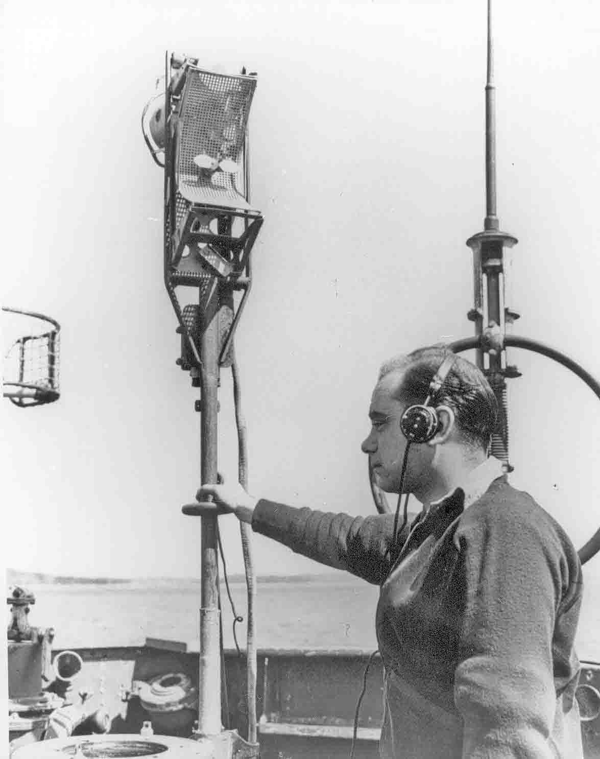 German submarine radar search receiver for the S-Band and X-Band signals, of 1944/45 This photo was taken after U889 had surrendered to the Canadian Navy at Nova Scotia, in May 1945.